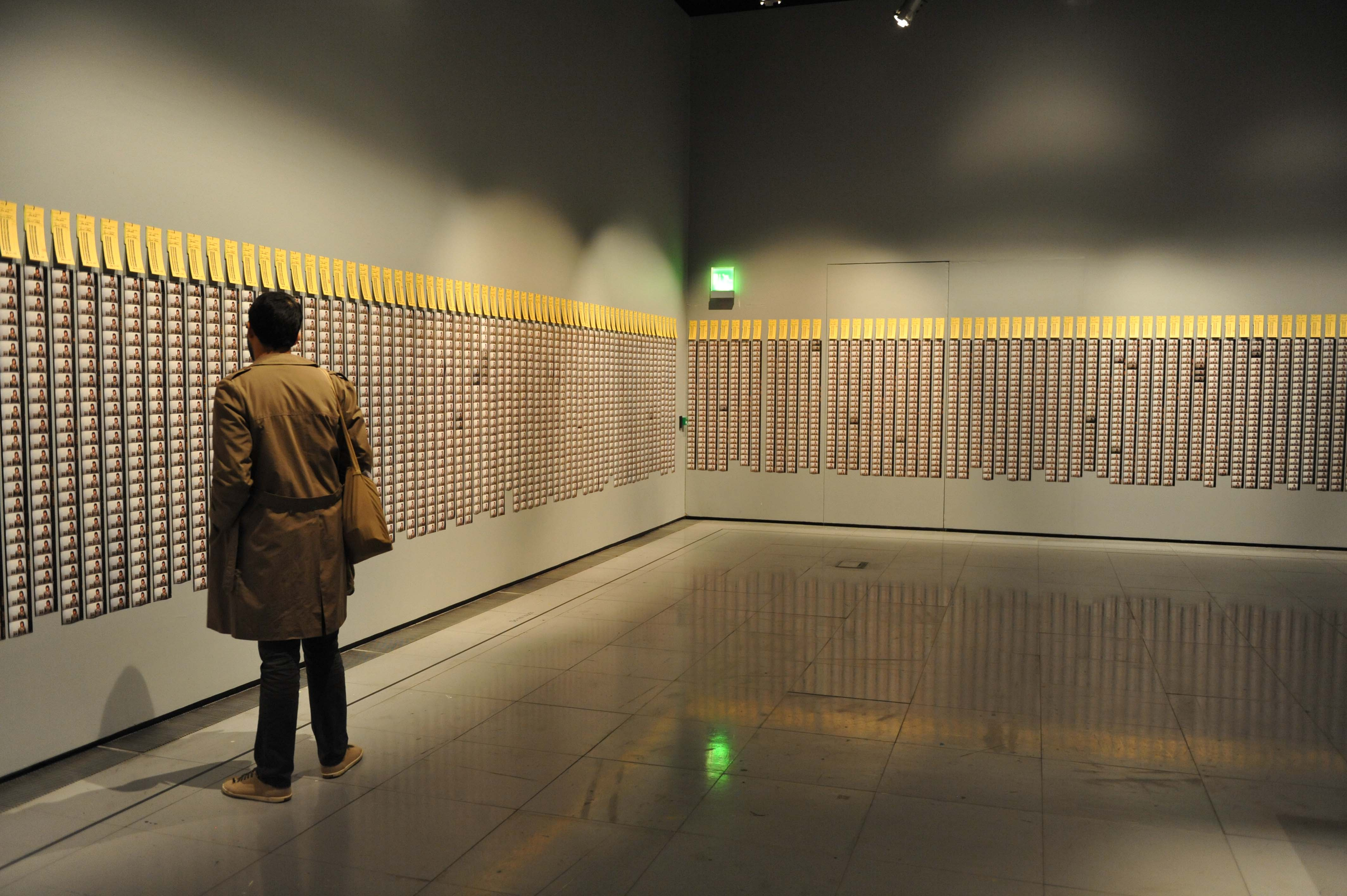 Tehching Hsieh, One Year Performance, 1980-81